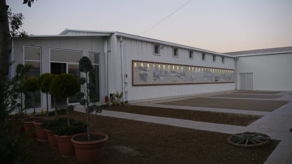 The Hangar Building of the Museum of the Princes' Islands. This is where the permanent exhibitions of the museum reside.